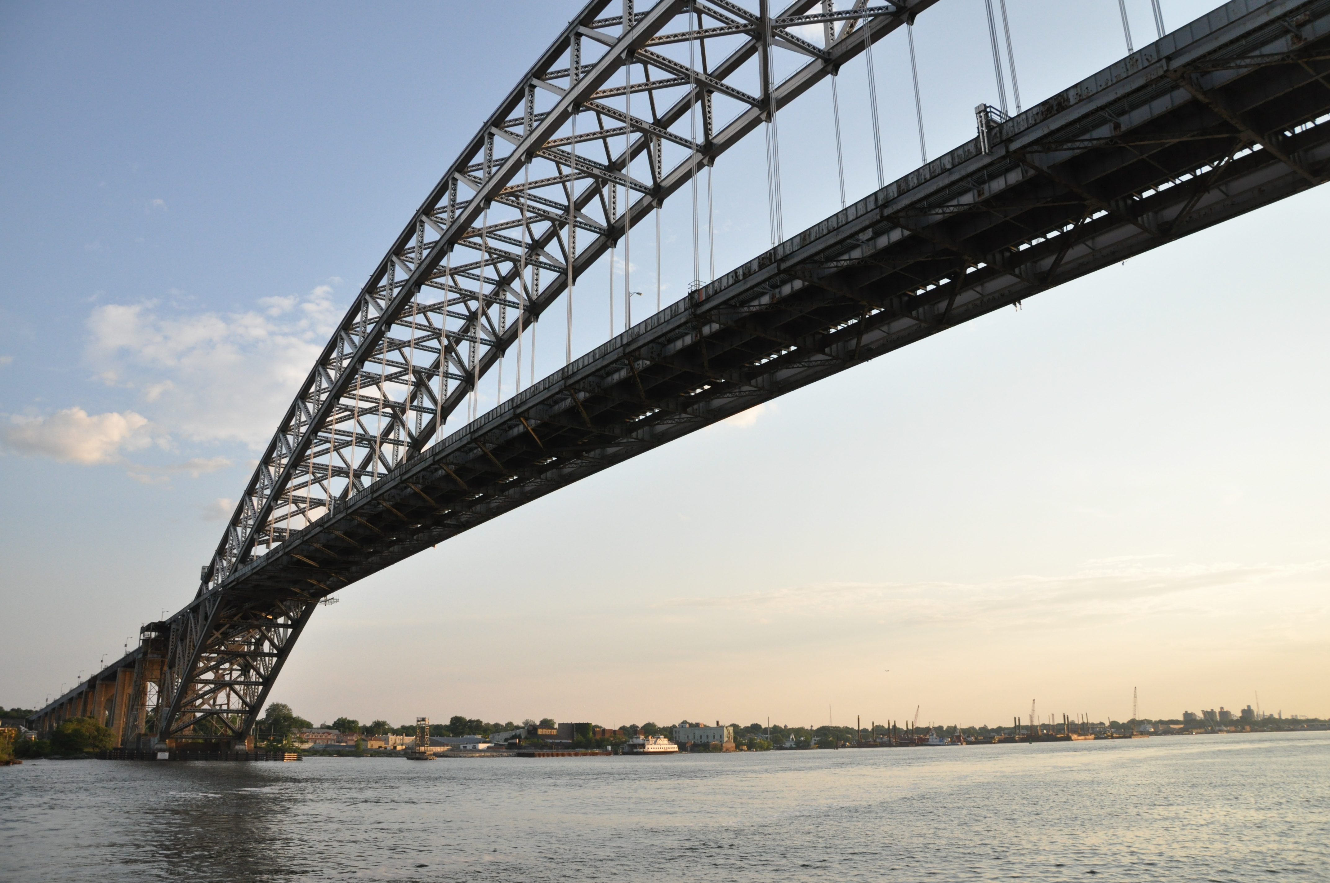 Under the Bayonne Bridge (original caption was "Under the Newark Bay Bridge")